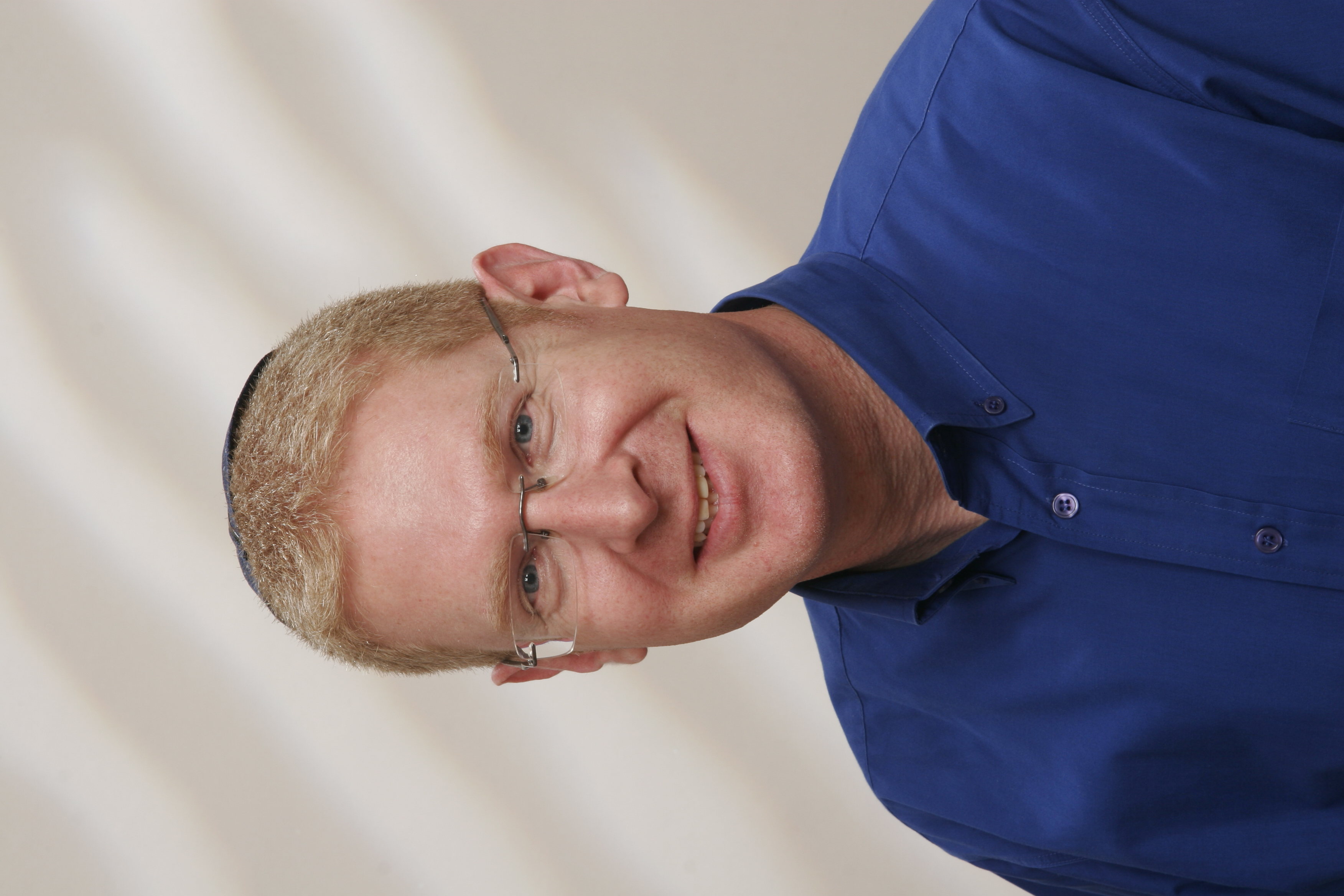 Dr. Haggai Harif